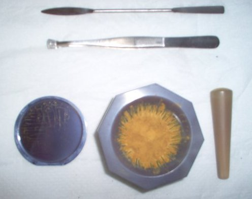 Title: Silicon nanopowder Desc: Porous silicon was detached from anodised water, placed in a mortar and ground to form Si nanopowder (yellow). Author: Twisp Date: 10.01.2006